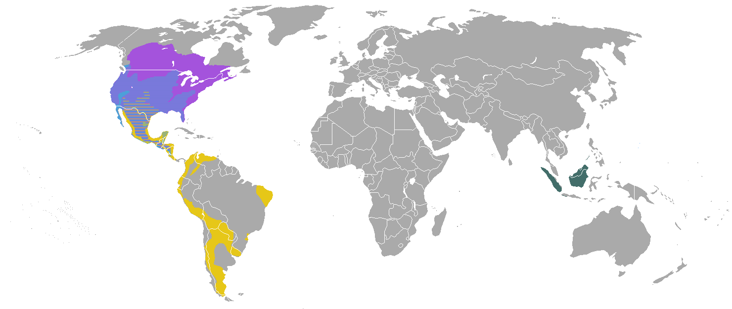 From the generic ranges.